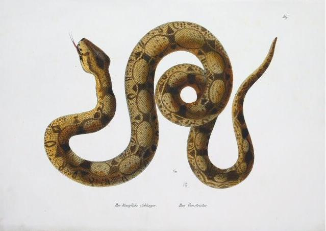 "Naturgeschichte und Abbildungen Der Reptilien", Boa constrictor